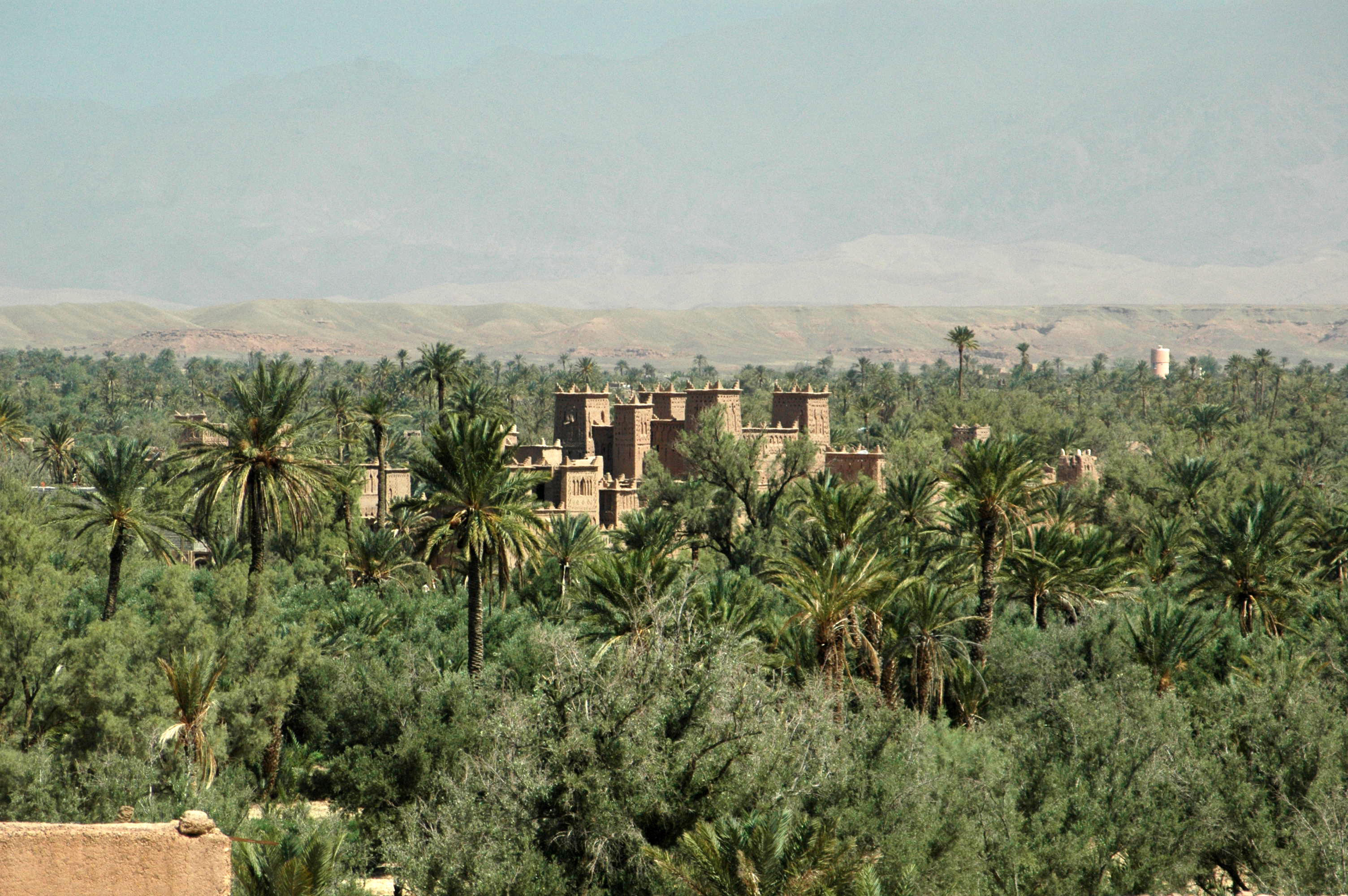 15th-century qasbah in palm grove near Skoura, Morocco